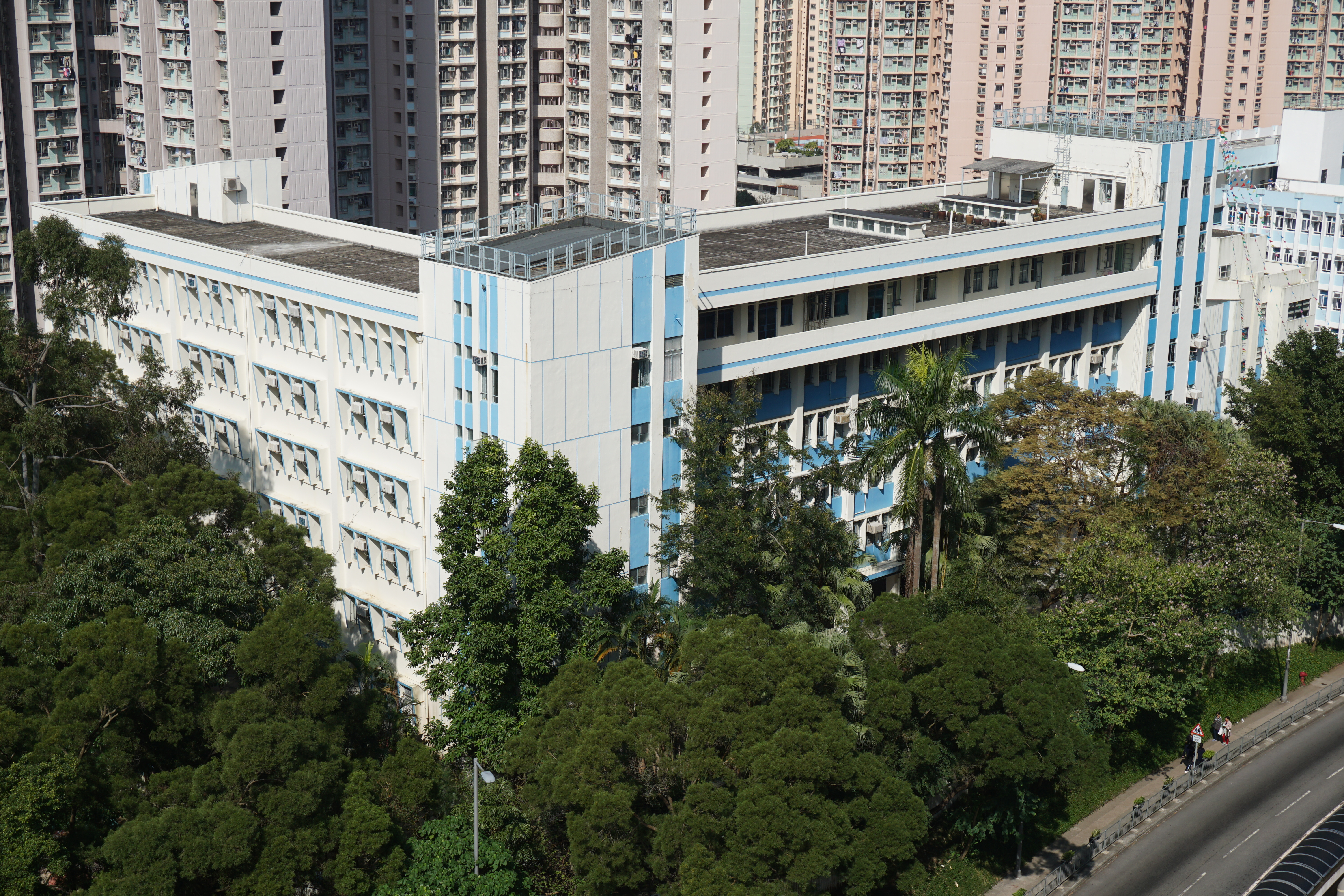 Pope Paul VI College in Shek Lei, Hong Kong.